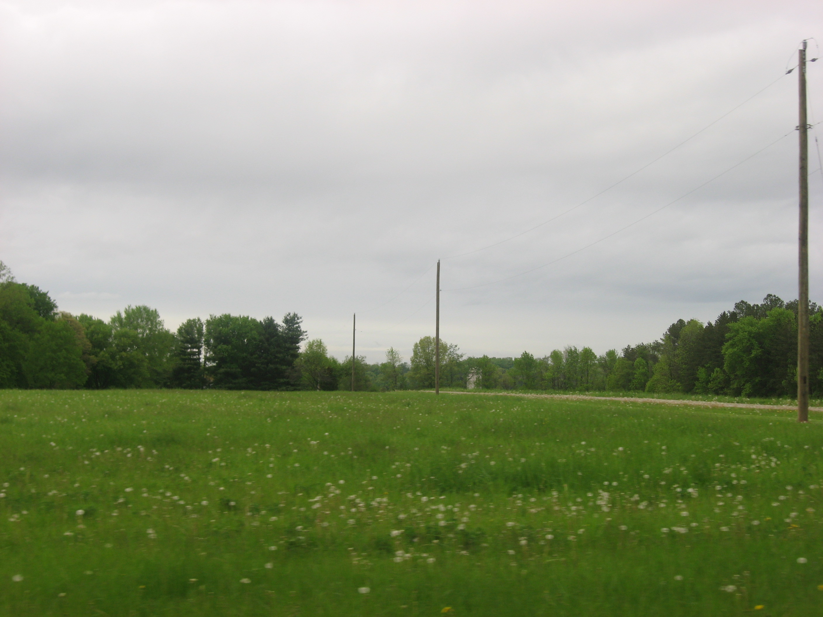 Looking toward the Moar Village Site from Lebanon-Union Road west of Morrow in Hamilton Township, Warren County, Ohio, United States. As an important archaeological site, it is listed on the National Register of Historic Places as a historic district.